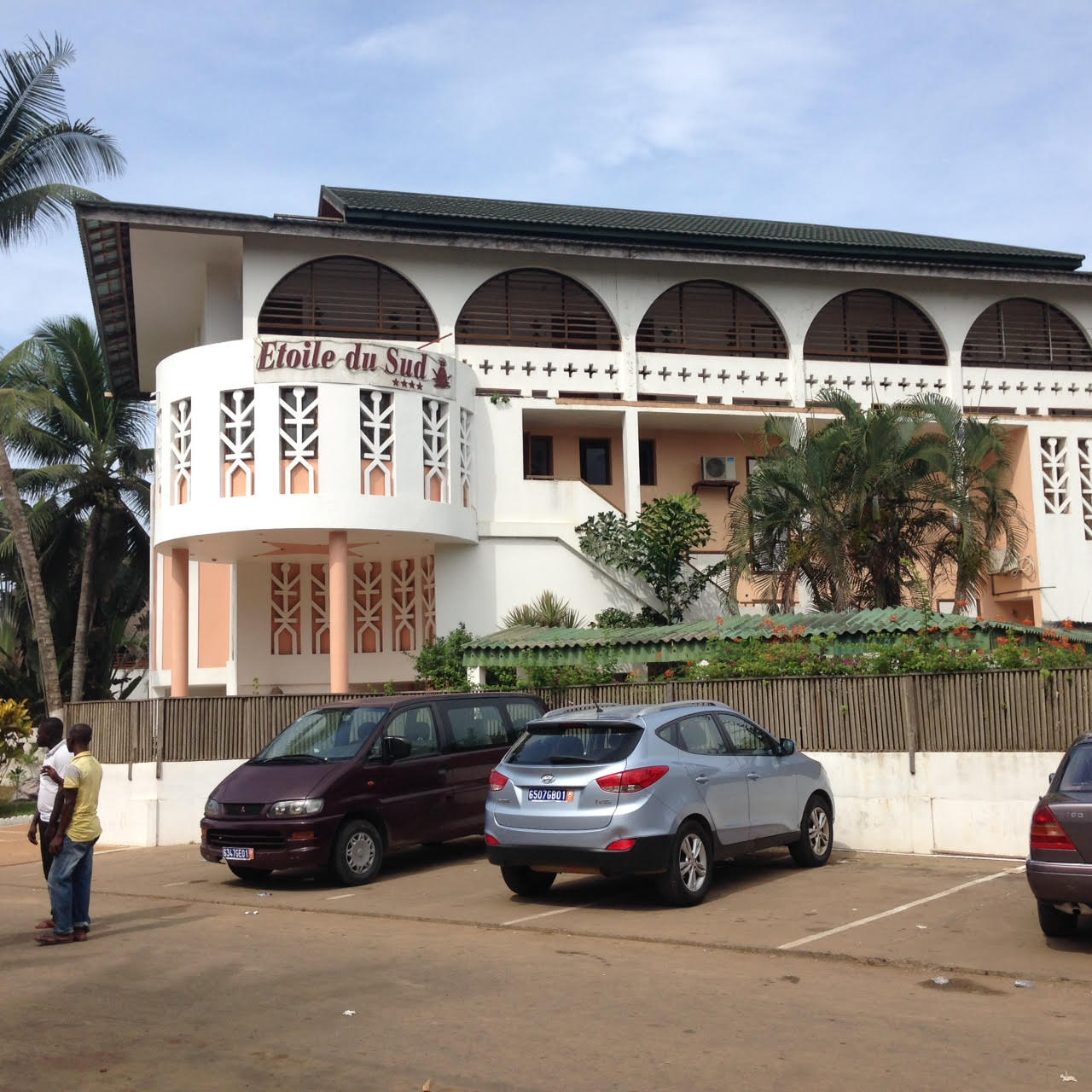 Southern Star Hotel - Grand Bassam, being attacked by terrorists 3/2016